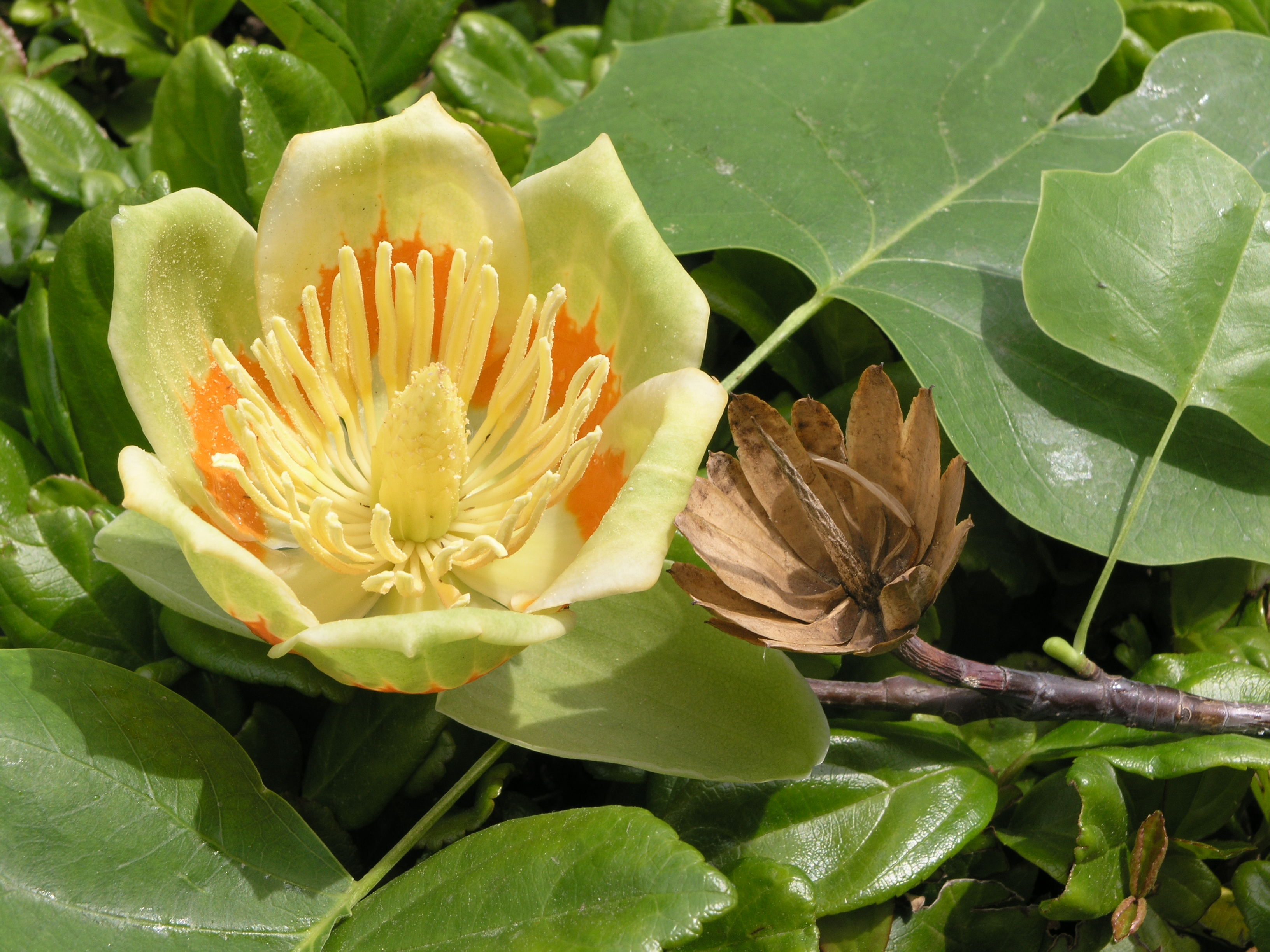 Liriodendron tulipifera flower